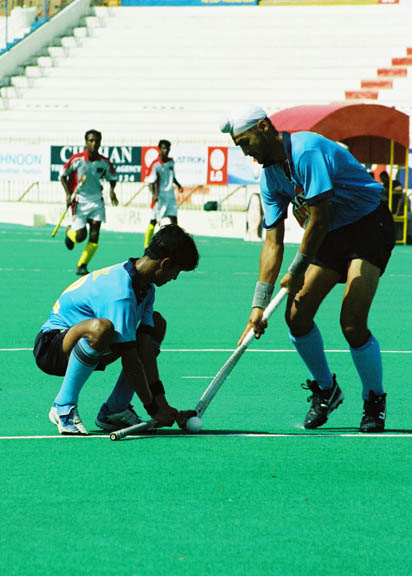 Sandeep Singh taking a penalty corner at the Junior Asia Cup held in Karachi, Pakistan in 2004.